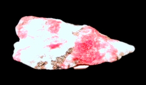 Tugtupite - Royal Ontario Museum in Toronto, Ontario, Canada